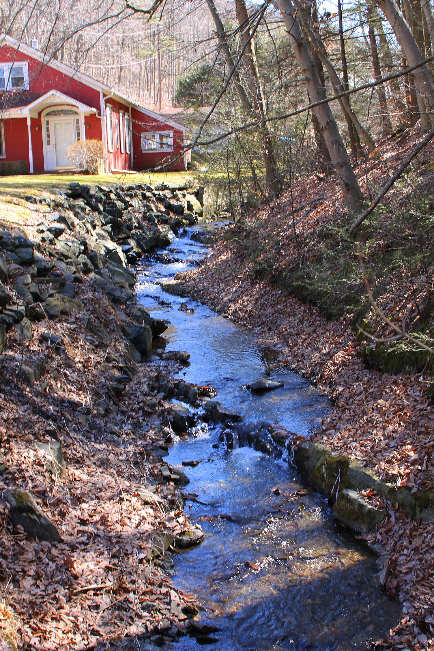 Toby Run looking upstream in March 2015